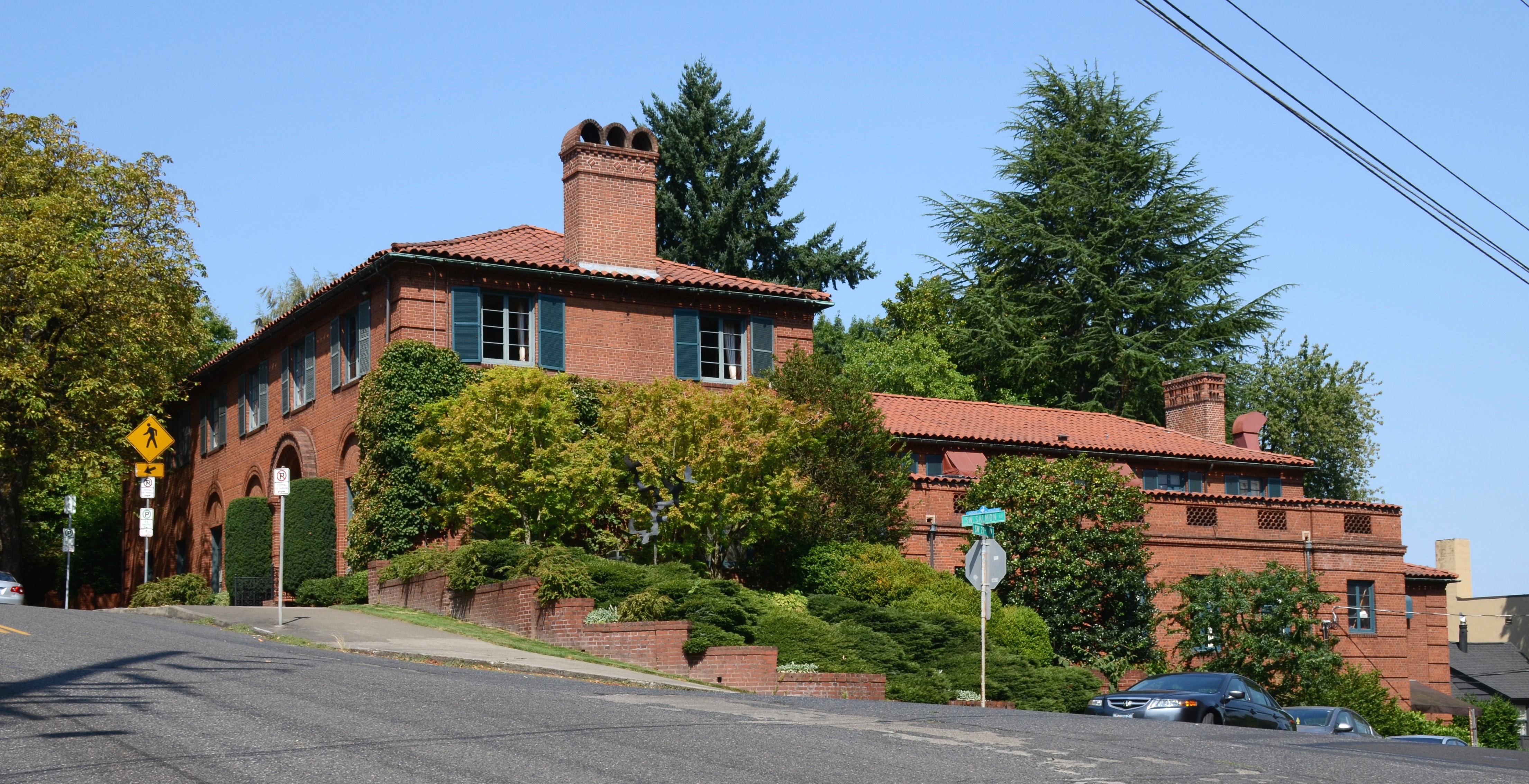 The clubhouse building of the Town Club, in Portland, Oregon, viewed from the southeast, across the intersection of SW 21st Avenue and Salmon Street.